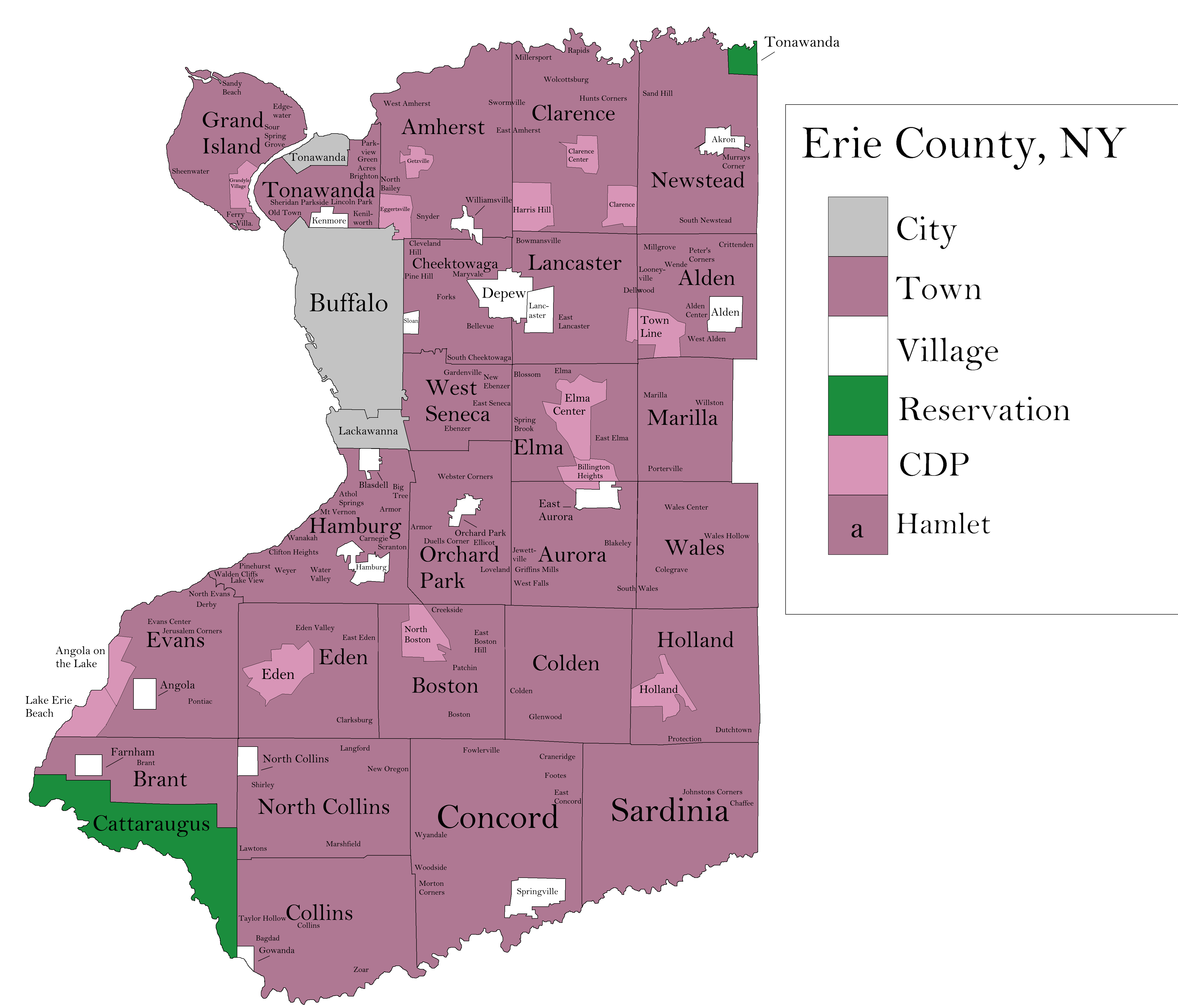 This is a map of Erie County, NY showing cities, towns, villages, reservations, CDPs, and hamlets.